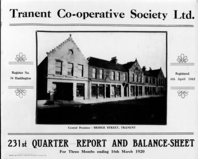 Tranent Co-operative Society was founded in 1862. The cover page of a 1920 quarterly report shows its main building, in Bridge Street, Tranent, that was built in 1872. Dressed ashlar stone. Shops, warehouses, stables, dwellings. The co-operative was renamed East Lothian Co-operative Society in 1840, after absorbing neighbouring co-operatives, becoming part of Lothian Borders & Angus Co-operative Society in 1998. East Lothian Museums website does not specify the author of the cover page or its photograph.